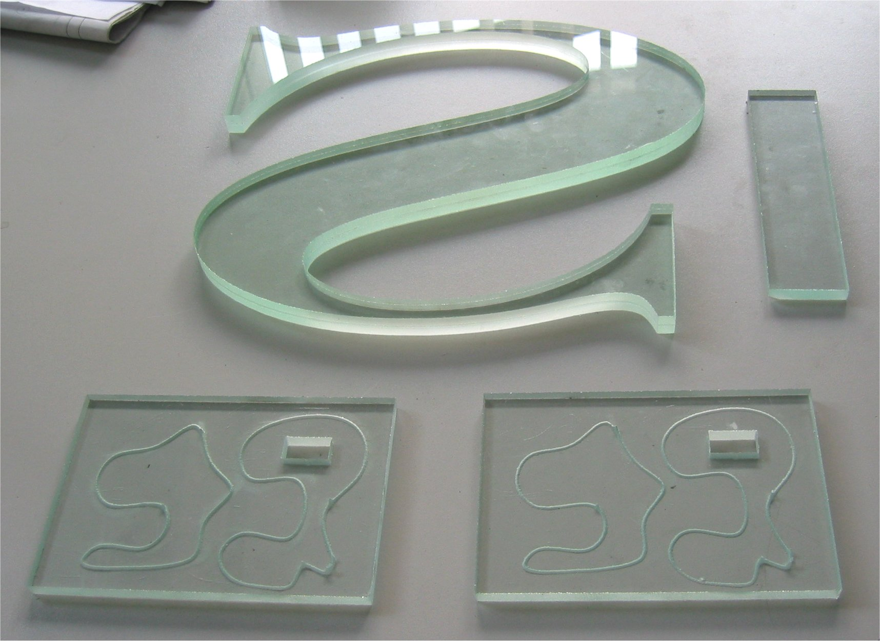 Glass cuttings off water jet cutting machine.